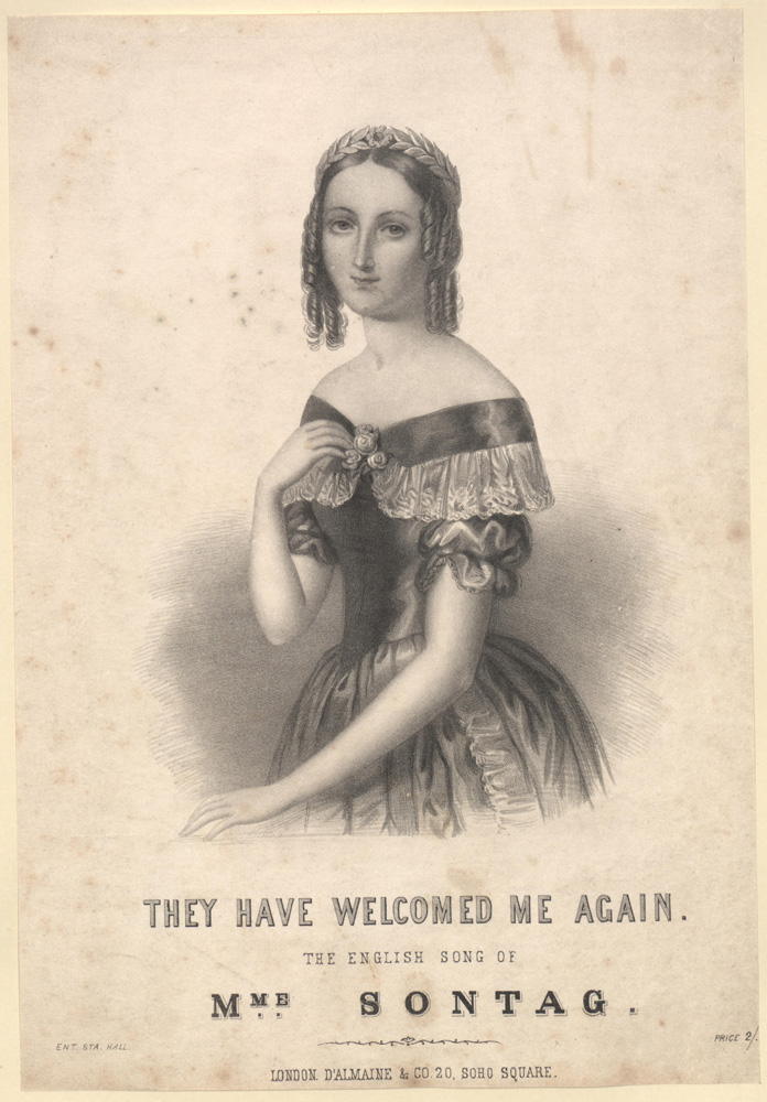 Sheet music cover for the song "They have welcomed me again", featuring a portrait of the singer Henriette Sontag. Shelfmark: Actors, Actresses and Entertainers 5 (67)